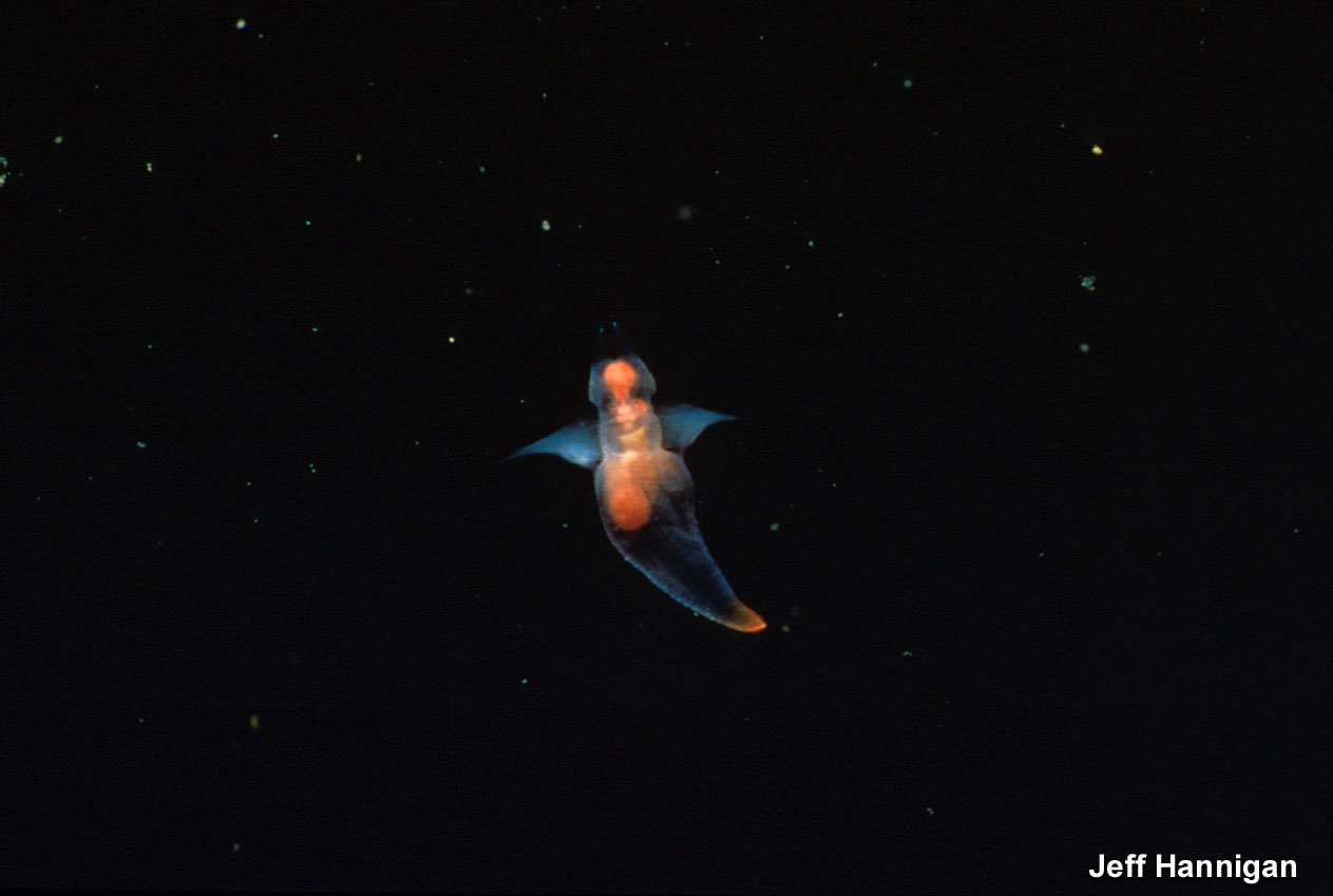 A photograph of shell-less gastropod called sea butterfly Clione limacina (Gastropoda: Gymnosomata). The specimen is "flying" in the water column using a pair of diminutive "wings" – parapodia.